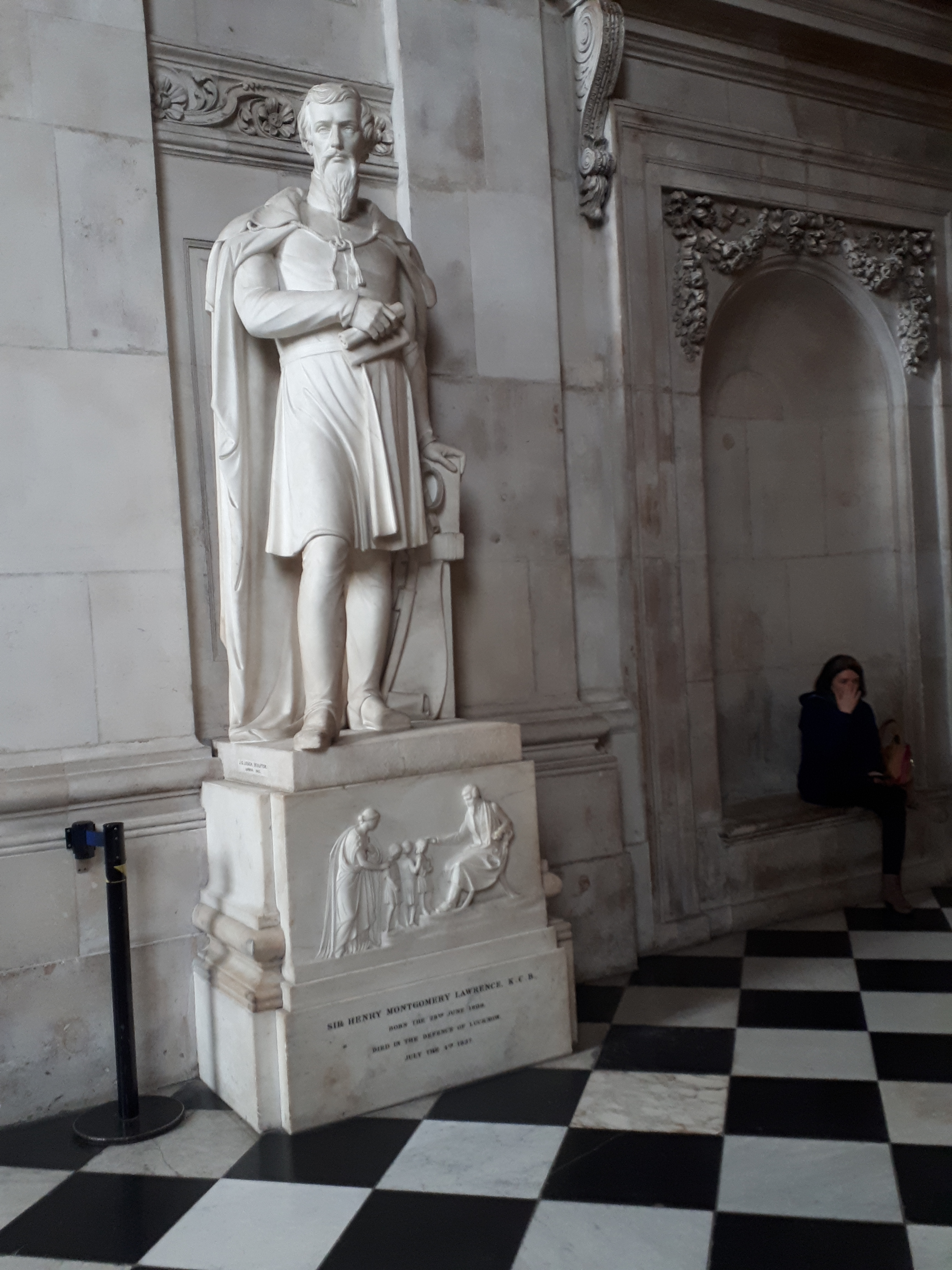 Memorial to Sir Henry Montgomery Lawrence, K. C. B., by John Graham Lough (1798-1876), at St. Paul's Cathedral, London